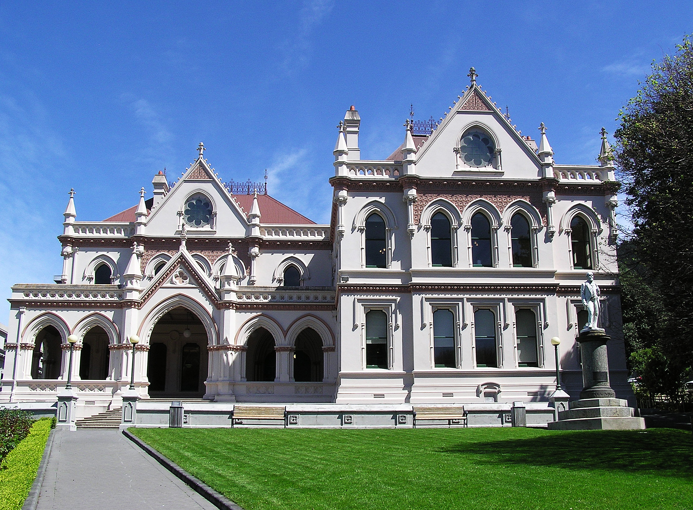 The Parliamentary Library in Wellington, New Zealand. New Zealand Historic Places Trust Register number: 217.